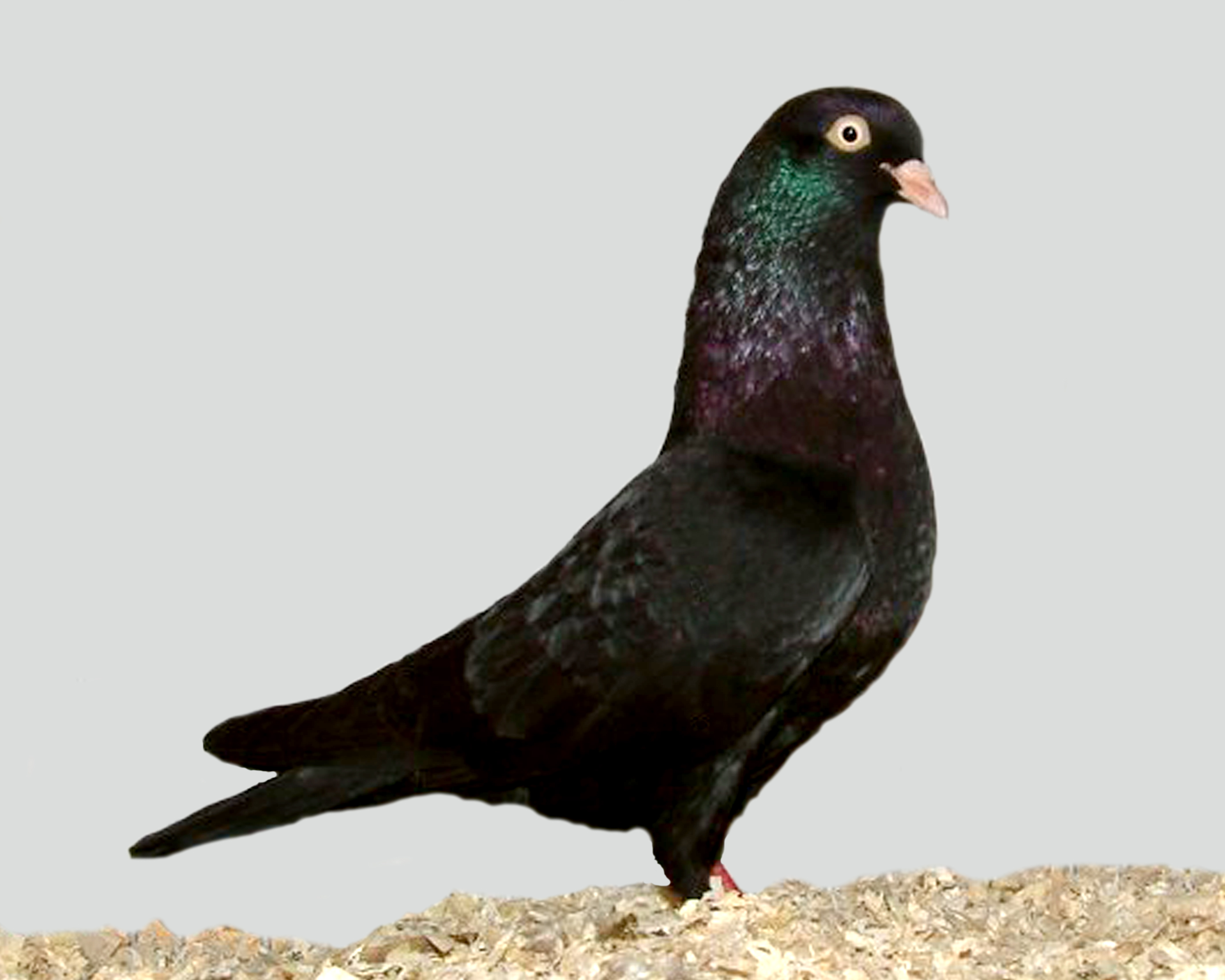 Belgian Tumbler (Black)